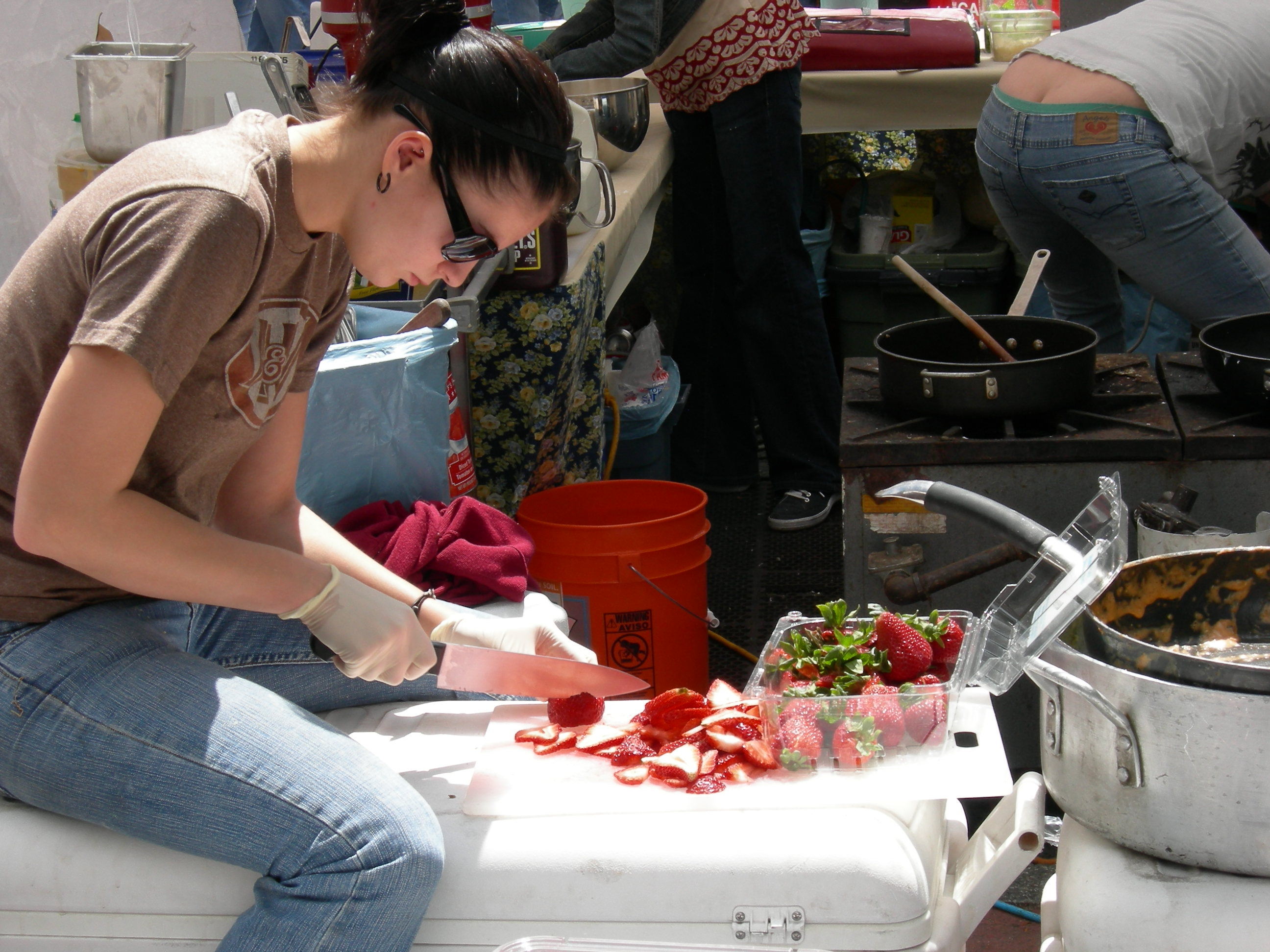 Cutting strawberries for crepes at University District Street Fair, University District, Seattle, Washington.